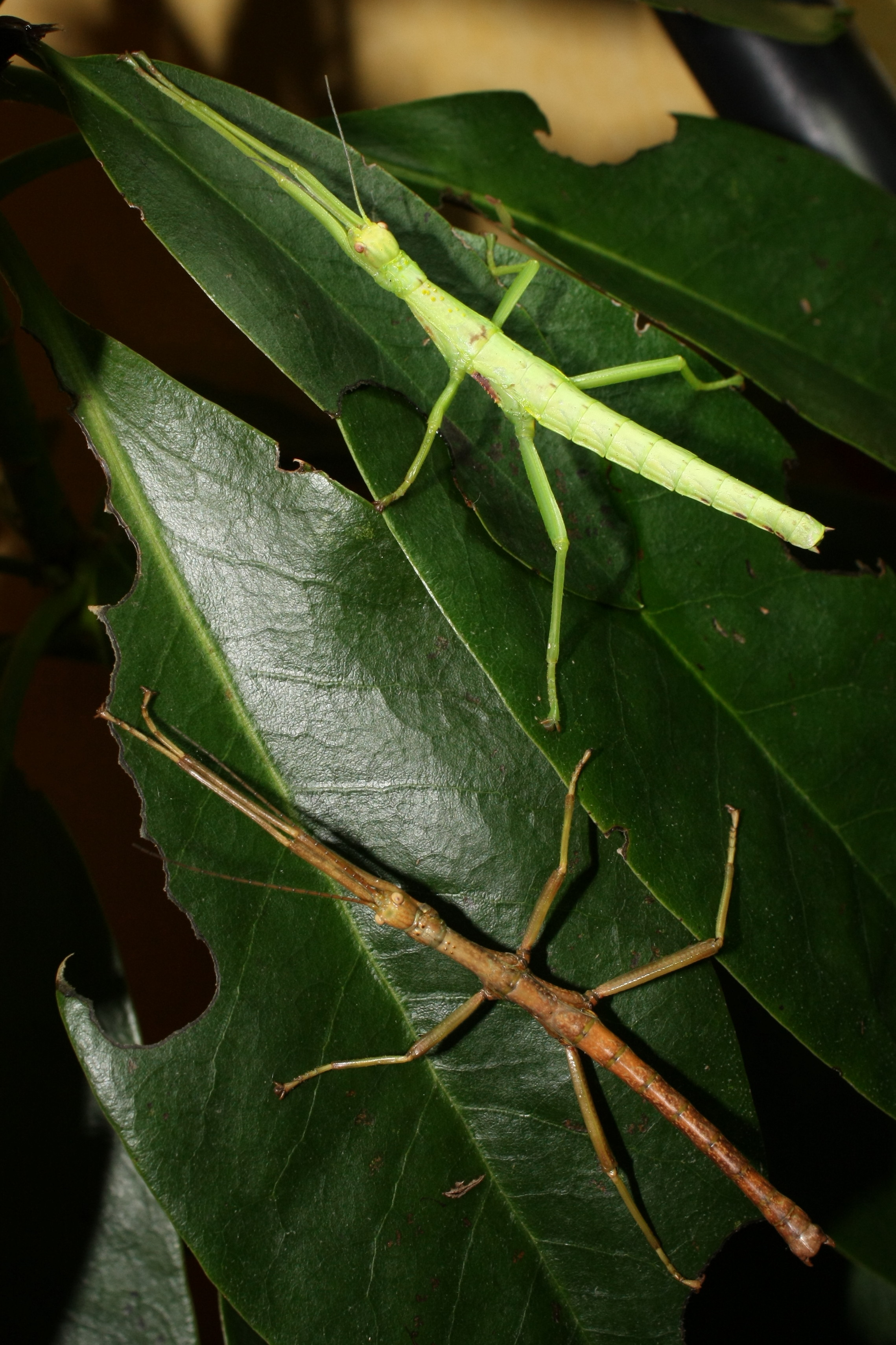 adult male and subadult female of Rhaphiderus spinigerus